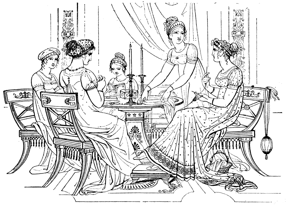 "Young Ladies at Home", an idealized classicized engraving of a Regency domestic interior by Henry Moses (probably originally made in 1812, published by 1823). Note that even in 1812, the pure neo-classical influence on real-world women's fashions was already somewhat on the wane. Despite the idealization, the depiction of the second woman from the left is accurate to 1812 in showing a back-buttoning dress with fullness gathered at the back (to make the dress look narrow from the front, while still allowing freedom of movement, since slits were not then used for that purpose). For the depictions of ancient Greek high-belted women's clothing styles which influenced this illustration (and also strongly influenced late 1790s Parisian fashion), see Image:Greek-womens-attire-Regency-Empire-influence-hypsizonos.gif .